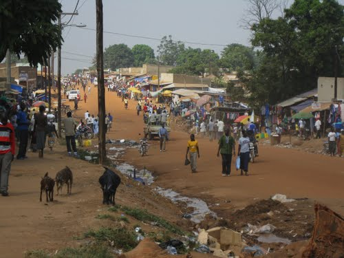 Road in Yei Central Business Center - South Sudan. in 2010